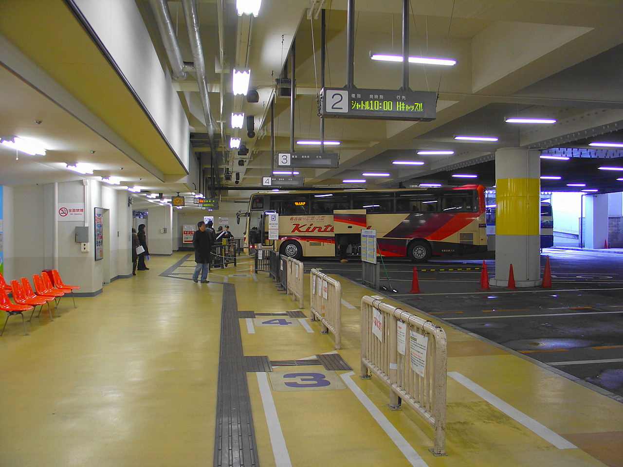 Nagoya Station Bus Terminal in Nakamura-ku, Nagoya City, Aichi Prefecture, Japan